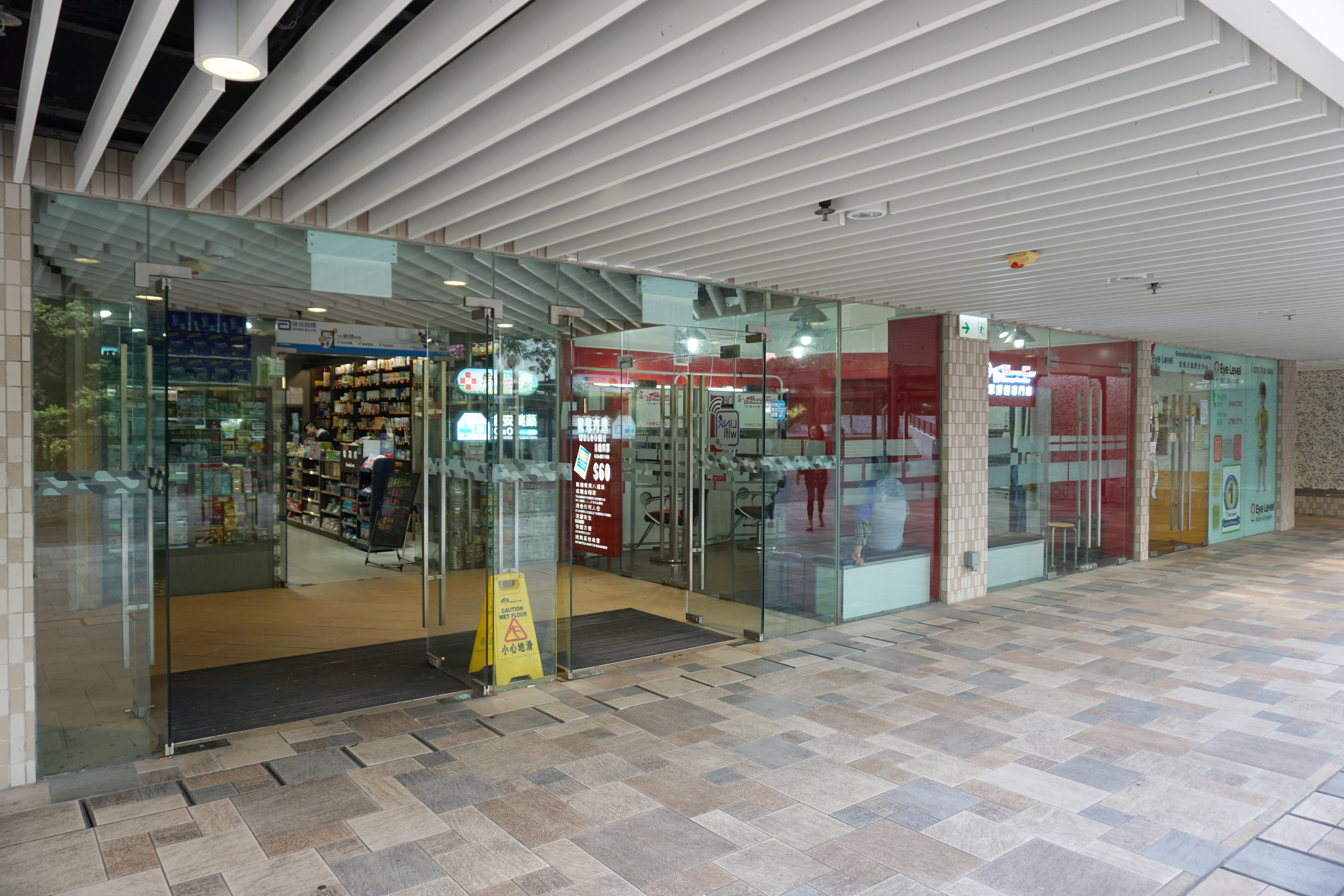 Tsing Yi Shopping Centre in Tsing Yi, Hong Kong.